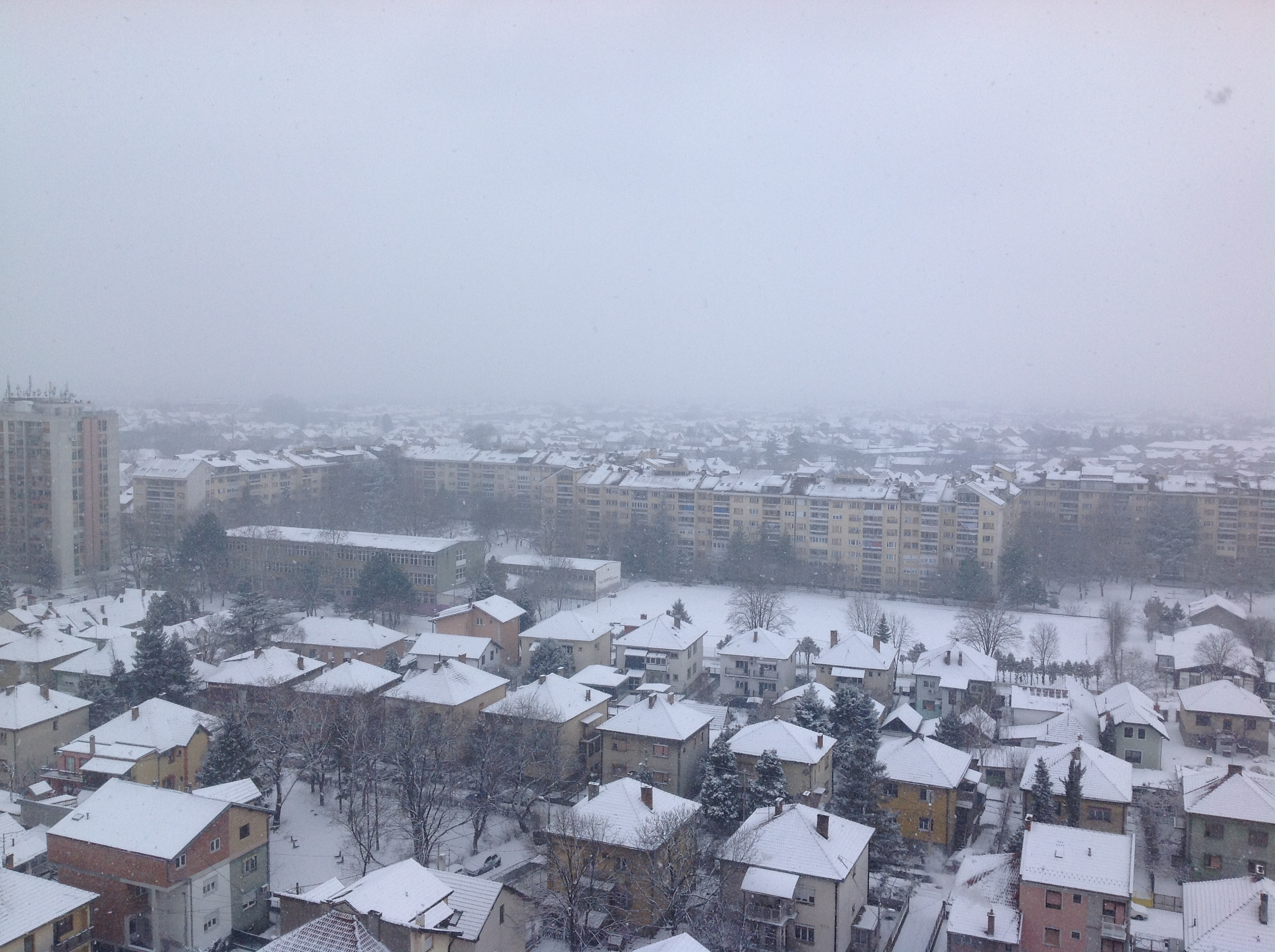 Zemun, Serbia